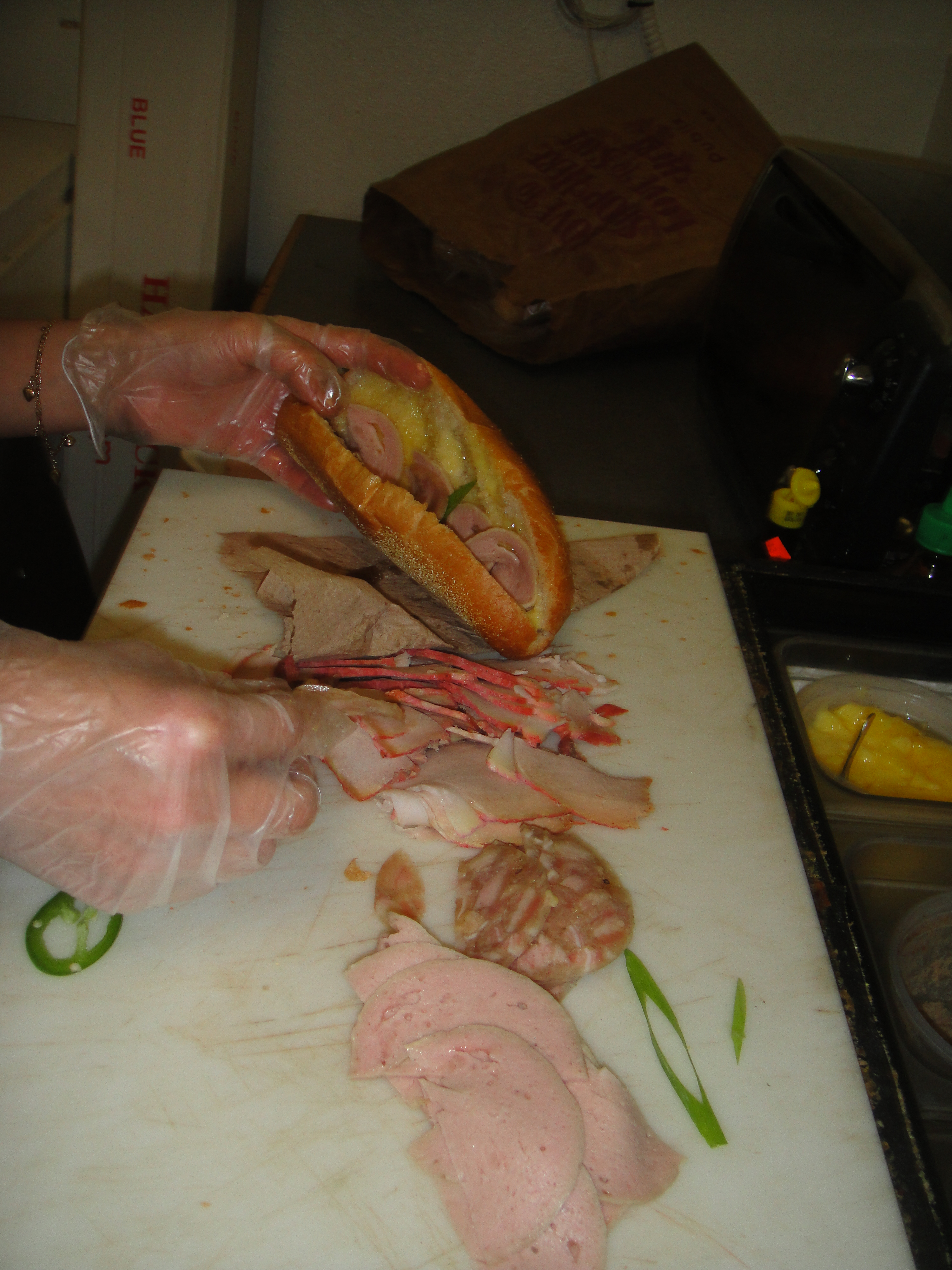 Banh mi assemblage